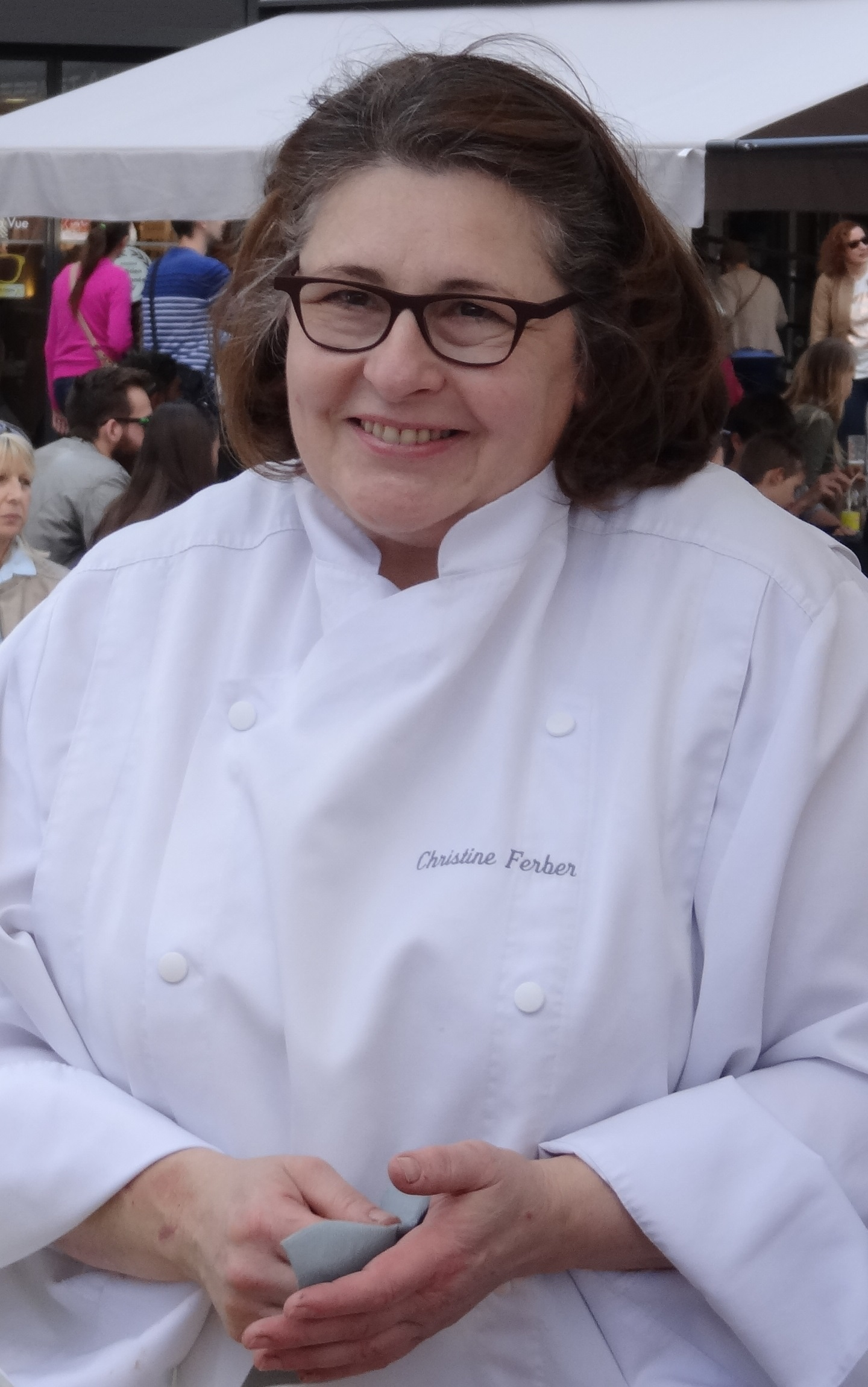 Christine Ferber, in Mulhouse at the feast of gastronomy, in september 2017.